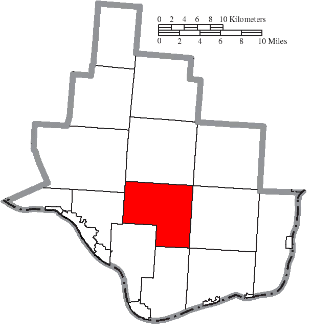 Map of the municipal and township boundaries of Lawrence County, Ohio, United States, as of the 2000 census, with the location of Lawrence Township highlighted. Township borders are shown only in unincorporated areas in order to differentiate incorporated and unincorporated areas more clearly.